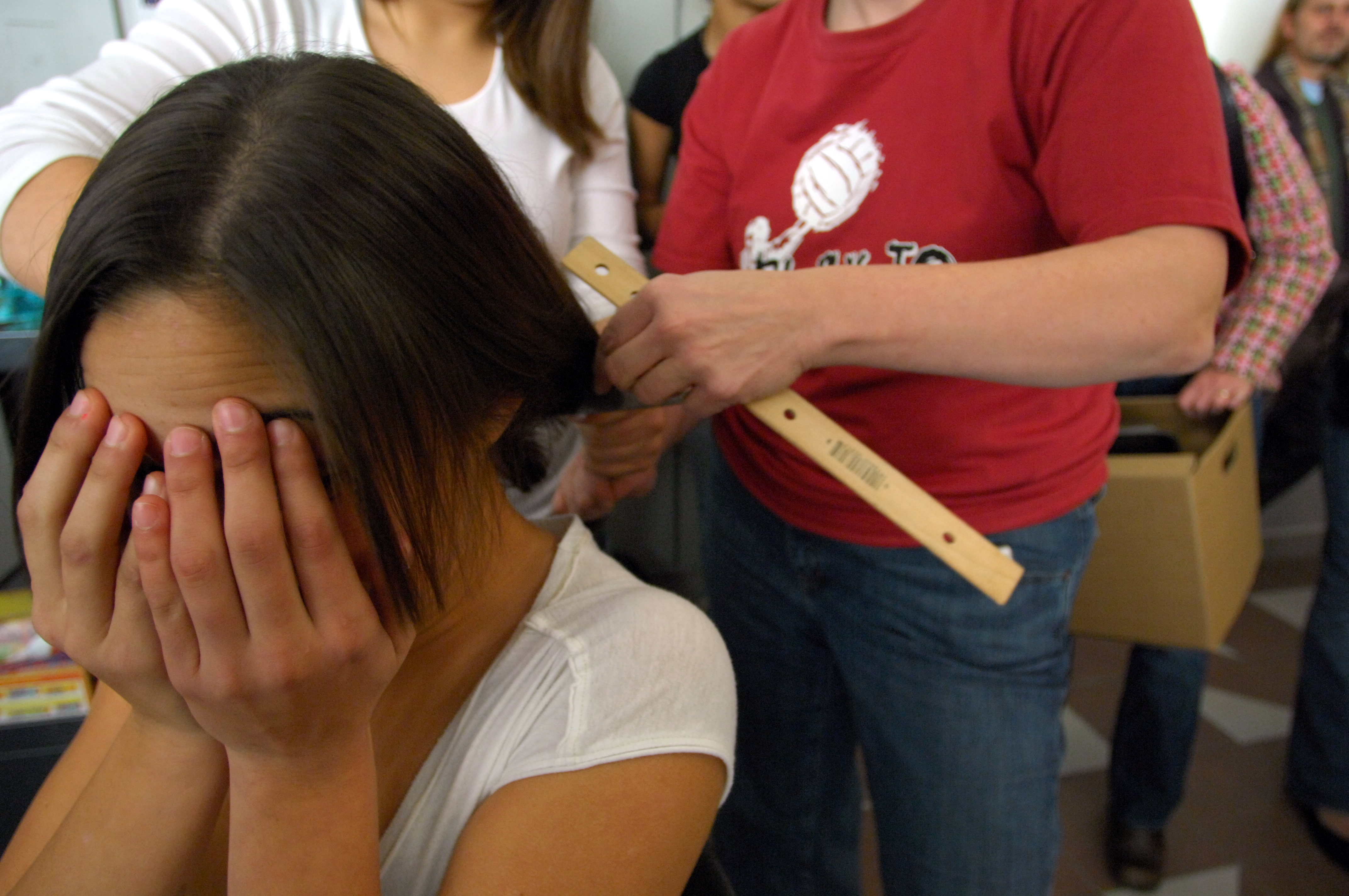 AVIANO AIR BASE, Italy-- Krysta Maples a freshman at Aviano High School cringes and covers her face as she donates her hair to Locks of Love. Aviano High School students Dylan Hillestad and Alex Simon organized the hair donation Nov.16, 2007. Locks of Love is a public non-profit organization that provides hairpieces to financially disadvantaged children under age 18 suffering from long-term medical hair loss from any diagnosis. Locks of Love are unique by using donated hair to create the highest quality hair prosthetics. The prostheses provided by locks of love help to restore self-esteem and confidence, enabling children to face the world and their peers. For more information about Locks of love go to